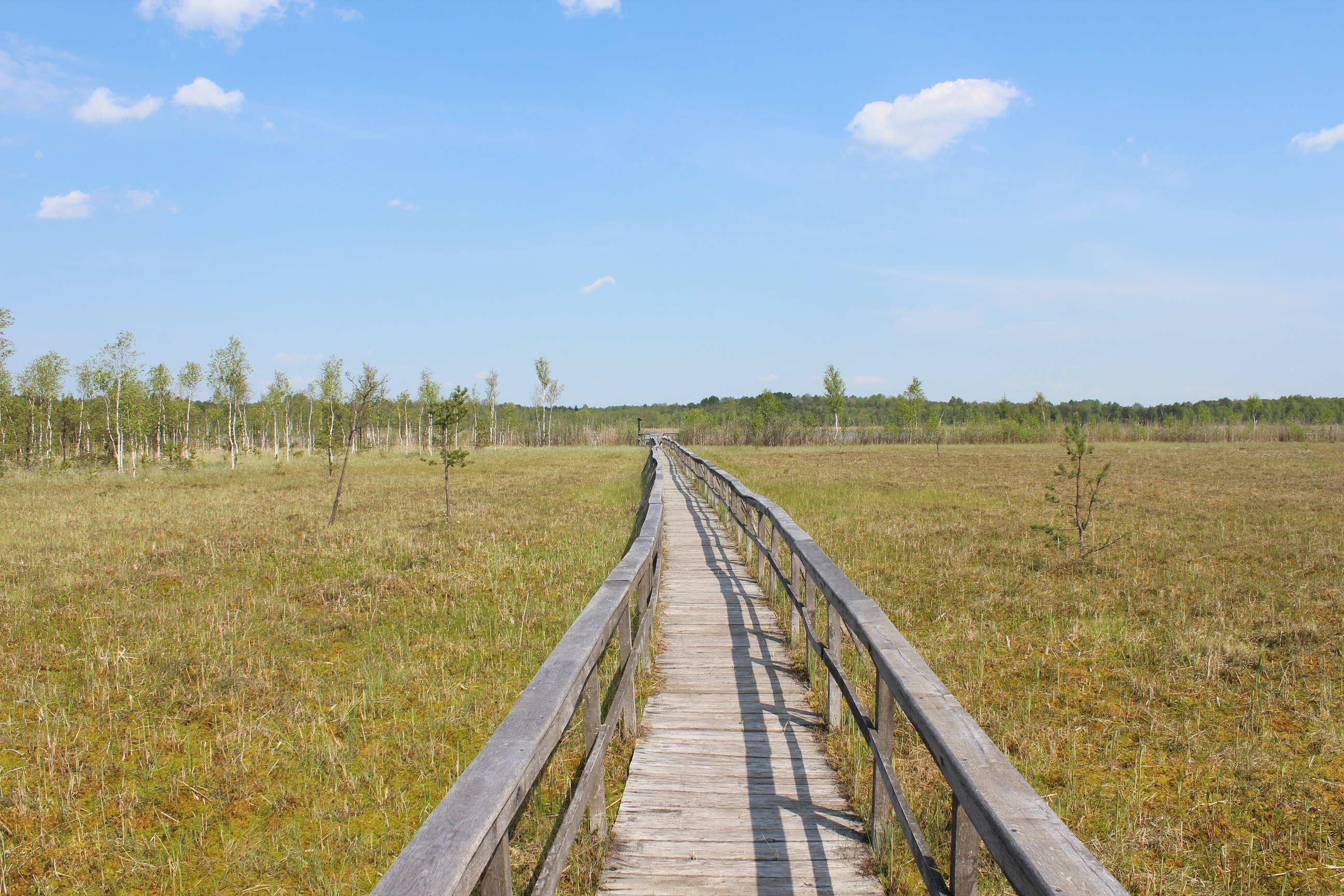 Polesie National Park - "Dąb Dominik" Trail